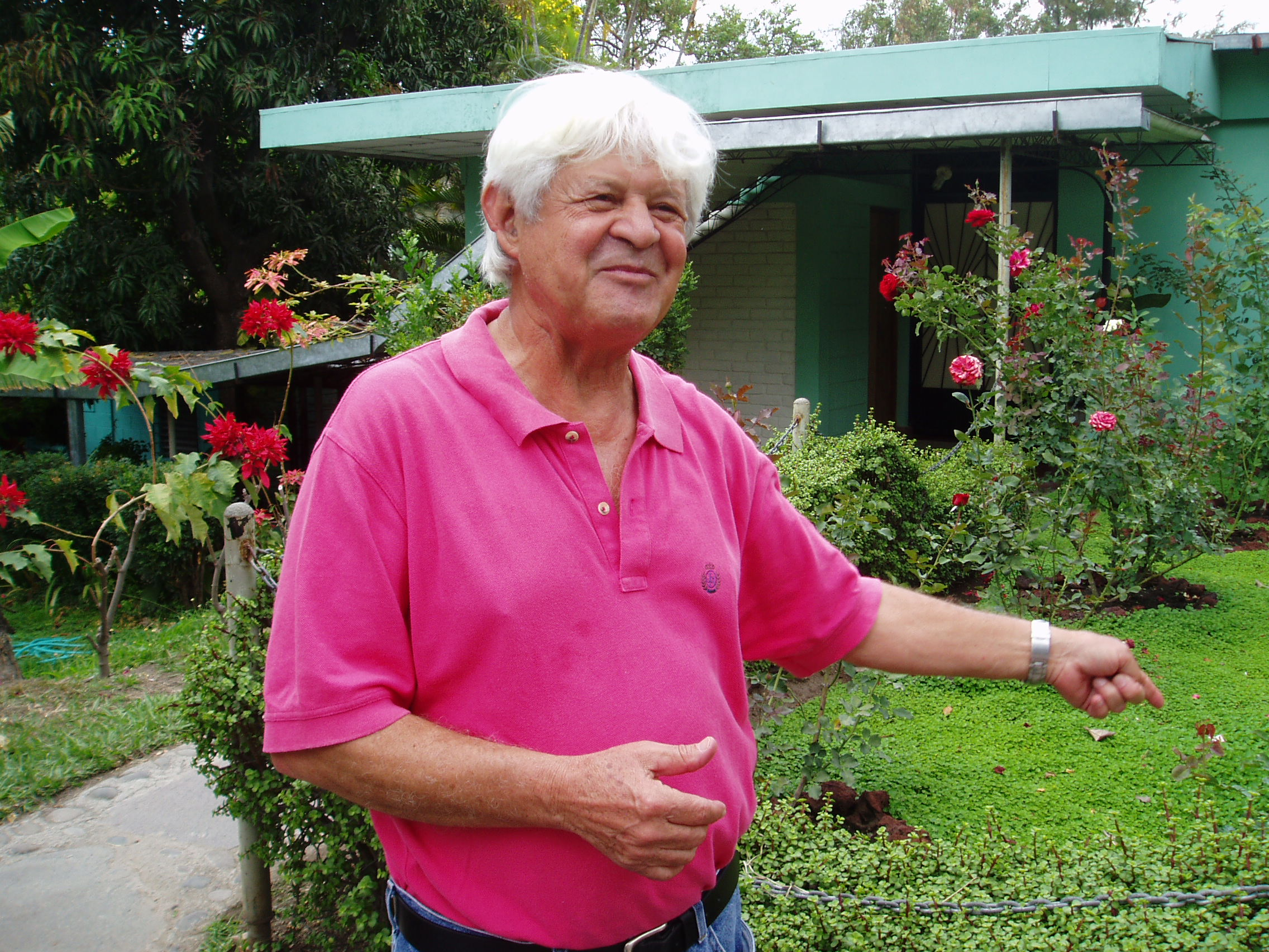 Taken by Josh Berman, Spring 2005 in El Salvador Taken by Josh Berman, Spring 2005 in El Salvador